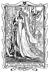 Illustration by H. J. Ford (1902)